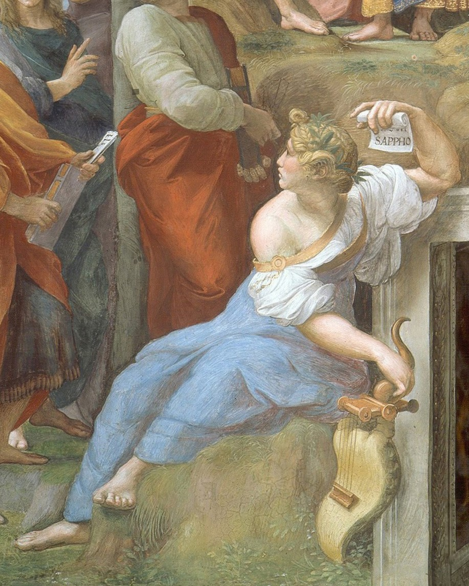 This image is a cropped version of Raphael's Parnassus, showing the figure of Sappho.